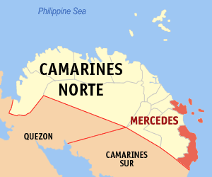 Map of Camarines Norte showing the location of Mercedes